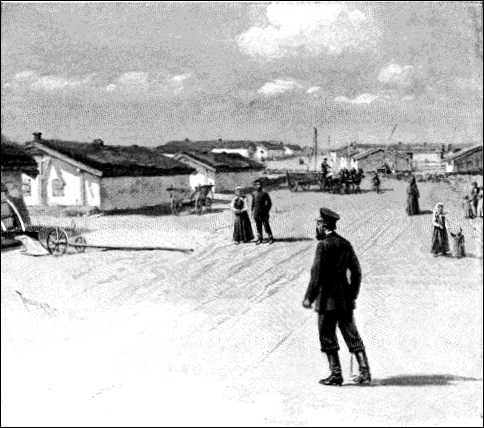 Sketch of Doukhobor people's Gorelovka village, Tiflis province, Russia, 1893 by H. F.B. Lynch. The location of the village (in today's Republic of Georgia) can be seen on this map